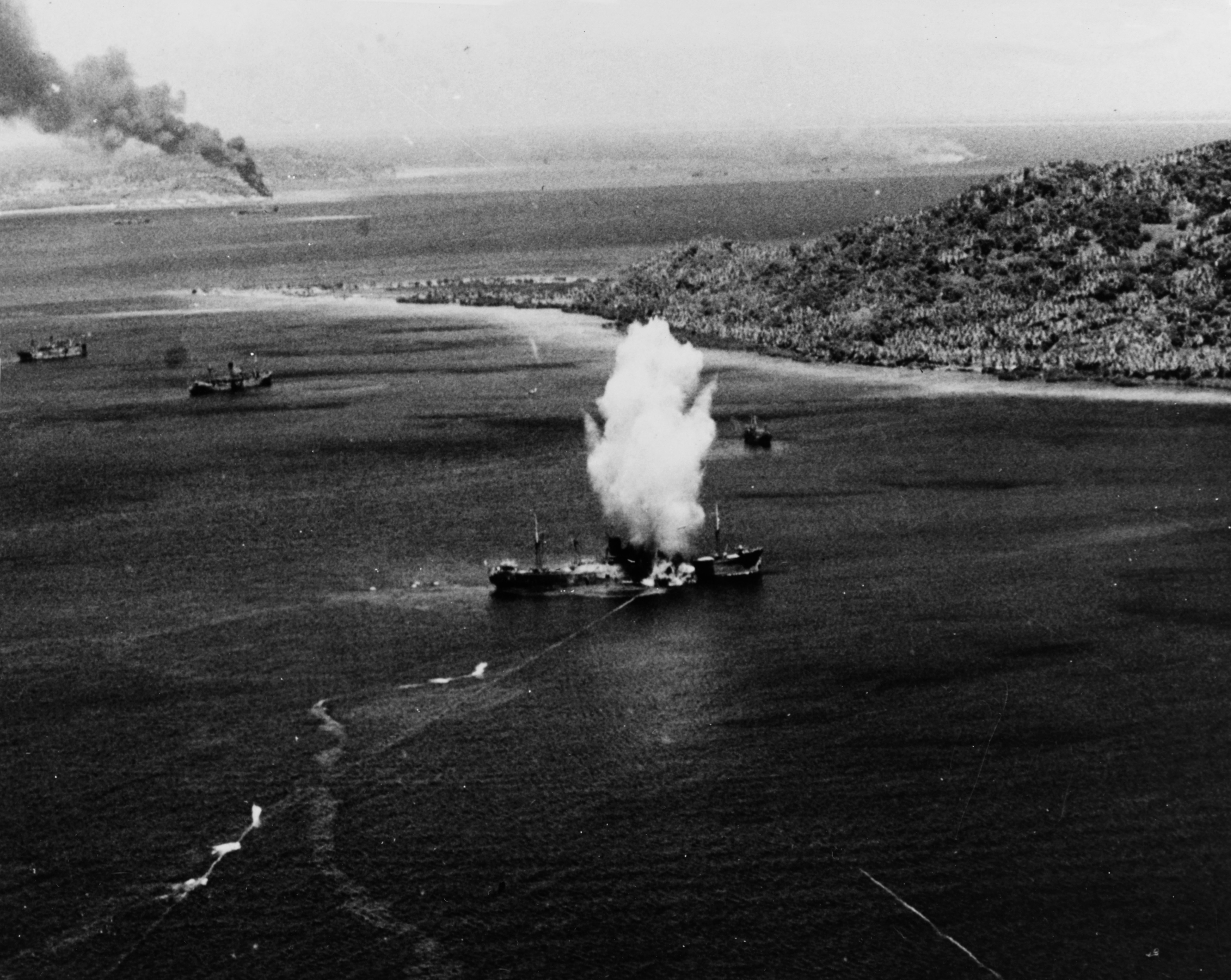 A Japanese freighter in Truk Atoll is hit by a Mark XIII torpedo dropped from a Grumman TBF Avenger of Torpedo Squadron 17 (VT-17) from the aircraft carrier USS Bunker Hill (CV-17), 17 February 1944. Fighting alongside VT-17 in task force 58 was VT-10. Including the ground-breaking night attack of 16-17 February, VT-10 accounted for one third of the total shipping destroyed by the Task Force 58 attack on Truk Atoll. Note the several torpedo wakes, including one very erratic one ending with the torpedo broaching. The photograph is discussed by the photographer W. Eugene Smith in the June 1944 article entitled Camera on a Carrier that appeared in Popular Photography. The aircraft that dropped the successful strike shown in the photo was flown by Lt. Paul Eugene Dickson.